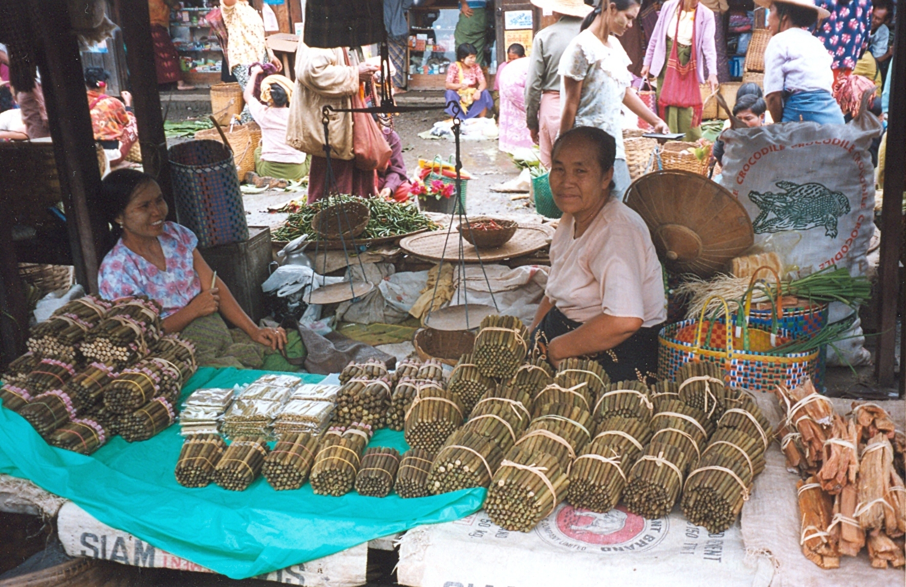 Cheroot cigars sold in the market at Nyaungshwe, Burma.